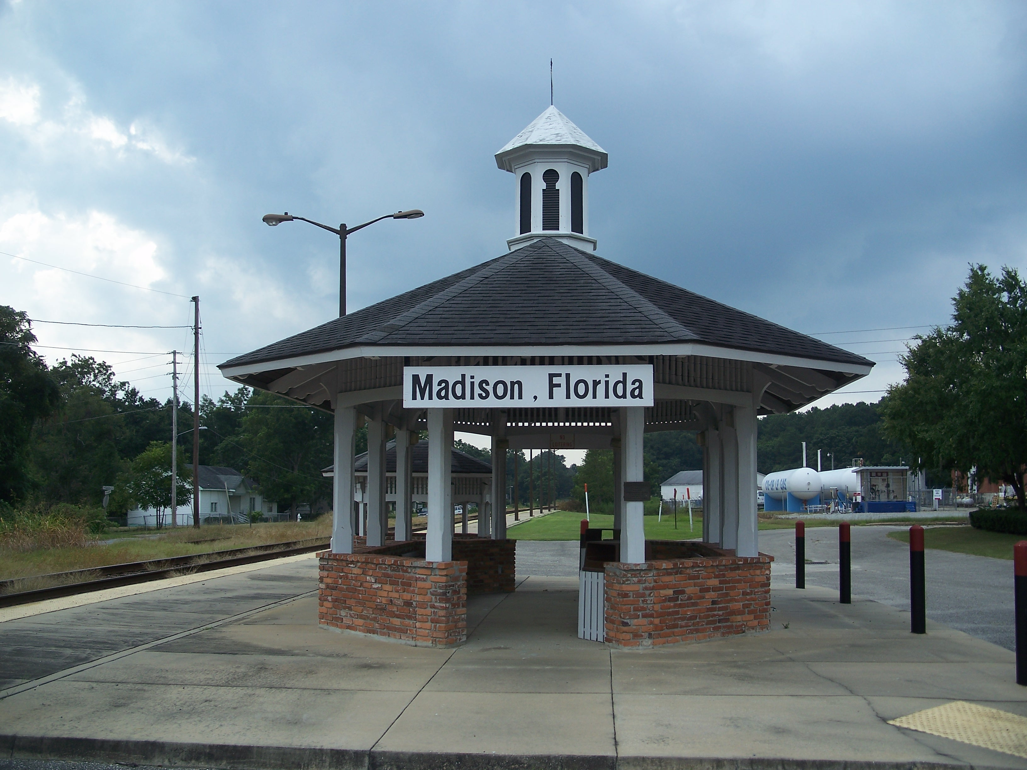 Madison, Florida: Amtrak station. No, really, this is it.